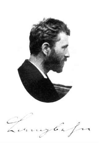 Photograph of Julius Langbehn, art historian